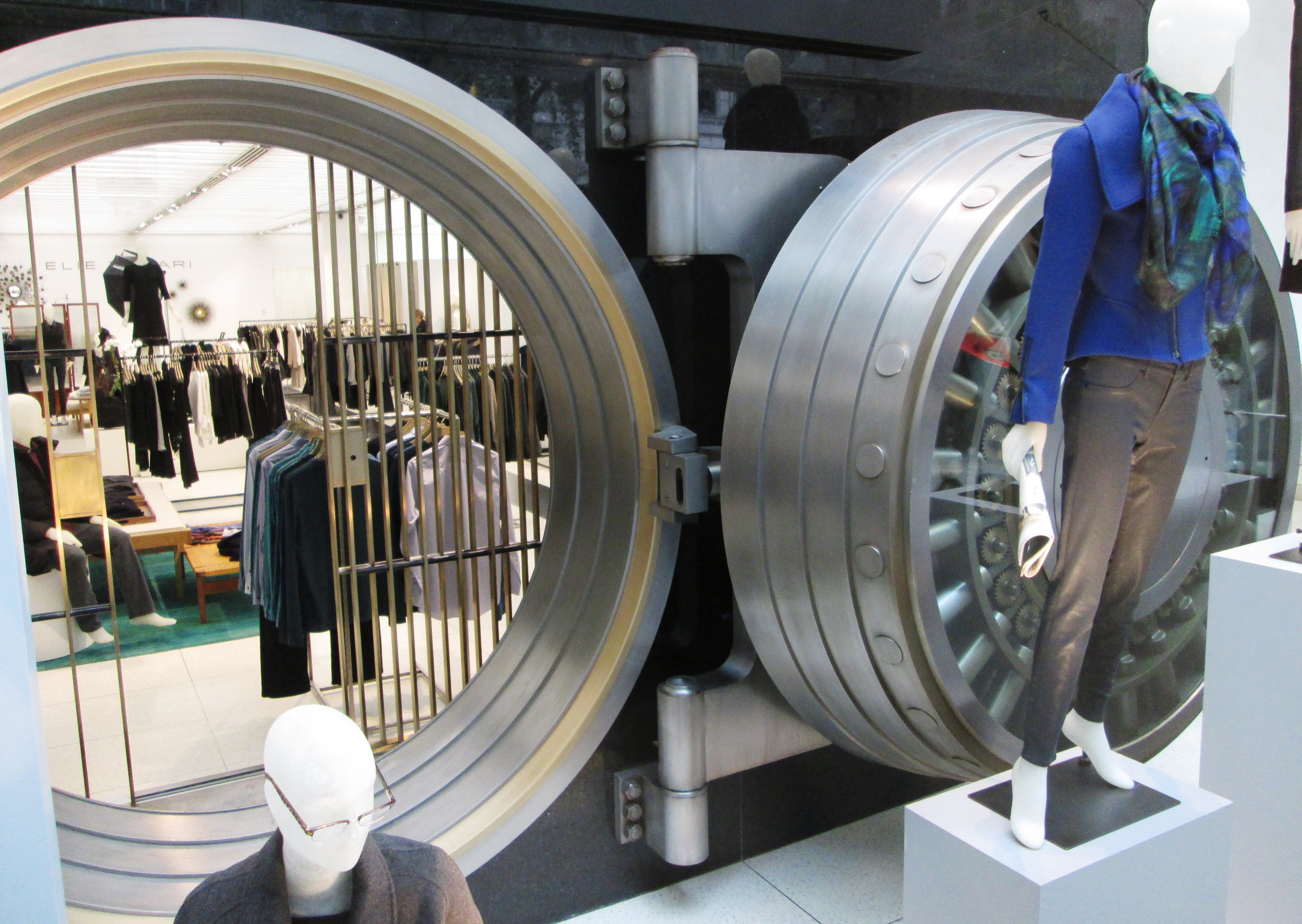 The former Manufacturers Trust Company Building at 510 Fifth Avenue on the corner of West 42rd Street in the Midtown Manhattan neighborhood of Manhattan, New York City, was built in 1954 and was designed by Charles Evans Hughes III and Gordon Bunshaft of Skidmore Owings & Merrill. Considered "the very model of Modernism" in architecture, both the building's exterior and interior have been designated New York City landmarks. One of the notable features of the building is a seven-foot-wide circular metal Mosler bank vault door on its first floor, visible from the street through the windows, leading to a 30-ton stainless-steel vault.